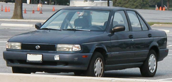 1990-1994 Nissan Sentra photographed in USA.